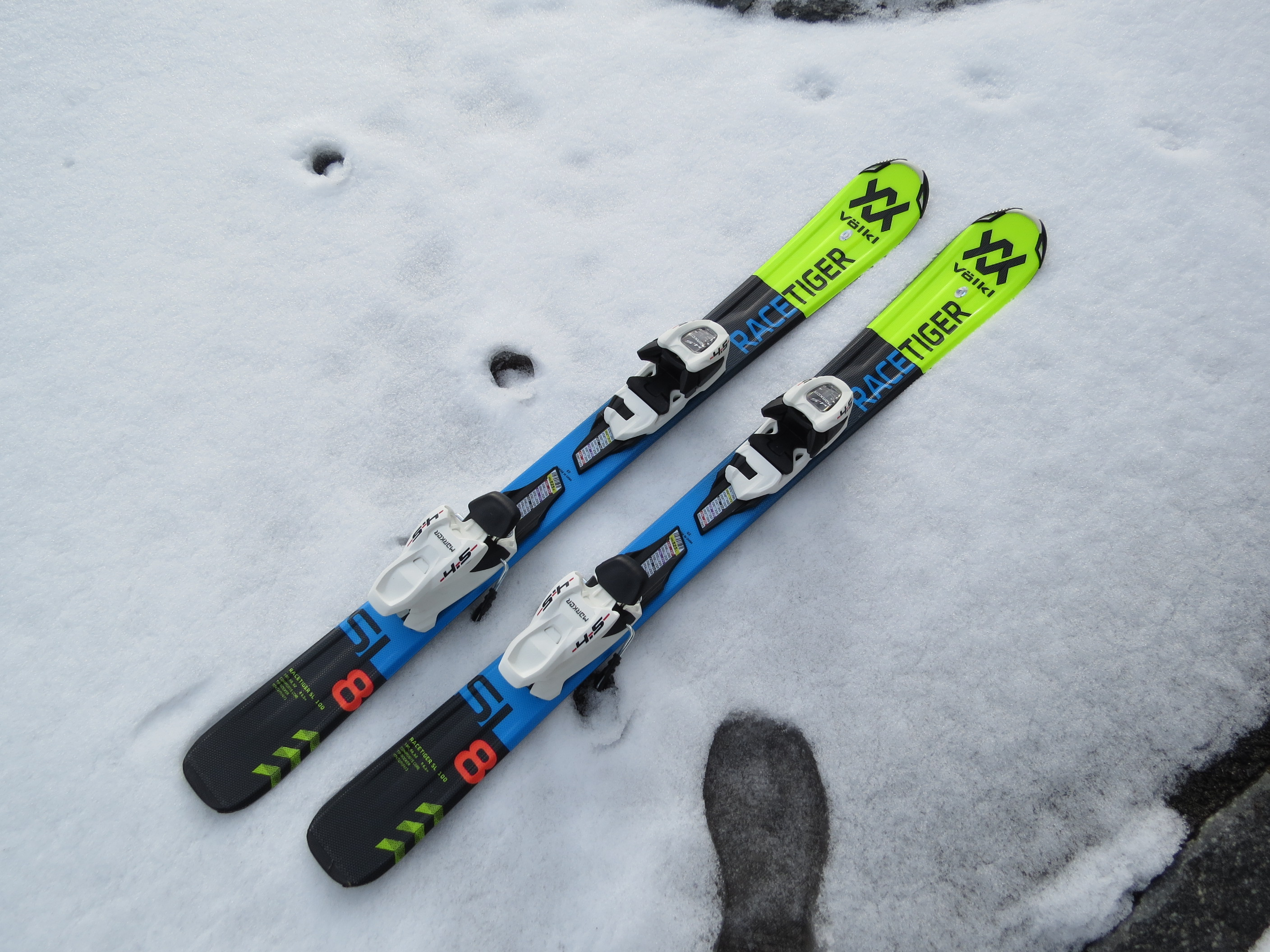 Völkl Racetiger SL 100 and 4.5 Marker children bindings